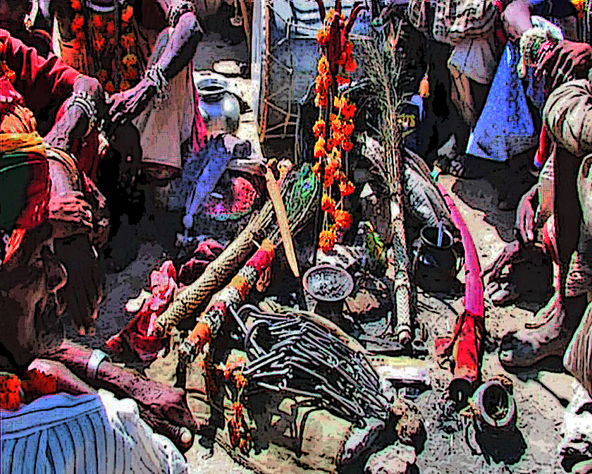 Before each Gavari ceremony the presiding Bhopas or shamans must invoke the Goddess's presence with incantations and rites using dhuni, fire, incense, music and the pictured pictured sacred implements